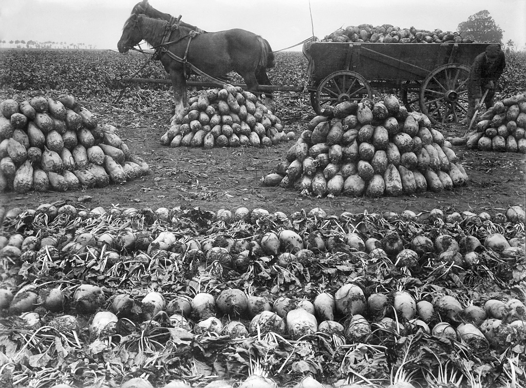 A man working with sugar beets, somewhere in southern Sweden, maybe in Skåne (Scania) or in Halland. En man som arbetar med sockerbetor, någonstans i södra Sverige, kanske i Skåne eller Halland. Parish (socken): Unknown Province (landskap): Skåne? Municipality (kommun): Unknown County (län): Unknown Photograph by: Unknown or Salfon Almquist. Atelier S. Almquist Date: 1910-1919 Format: Glass plate negative Persistent URL: Read more about the photo database (in english)